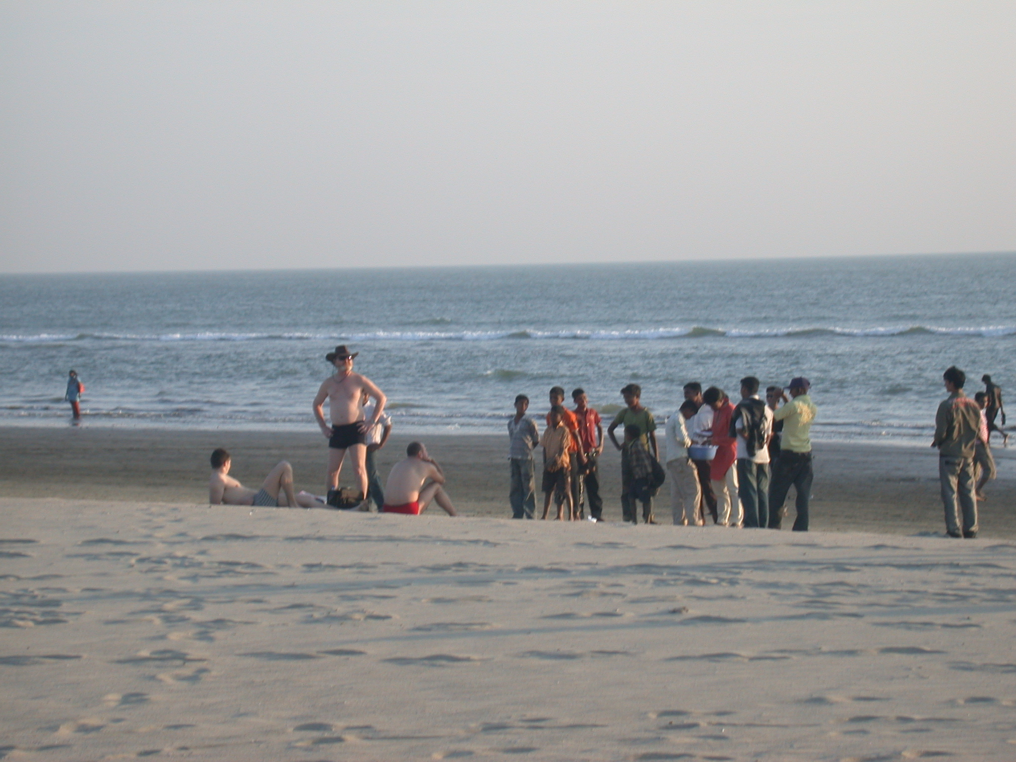 Three Ukrainian men dress much less modestly than norm on this Bangladesh beach; attract attention of local children.